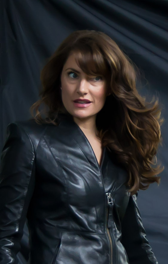 Mädchen Amick at the set of Psych, season 6.